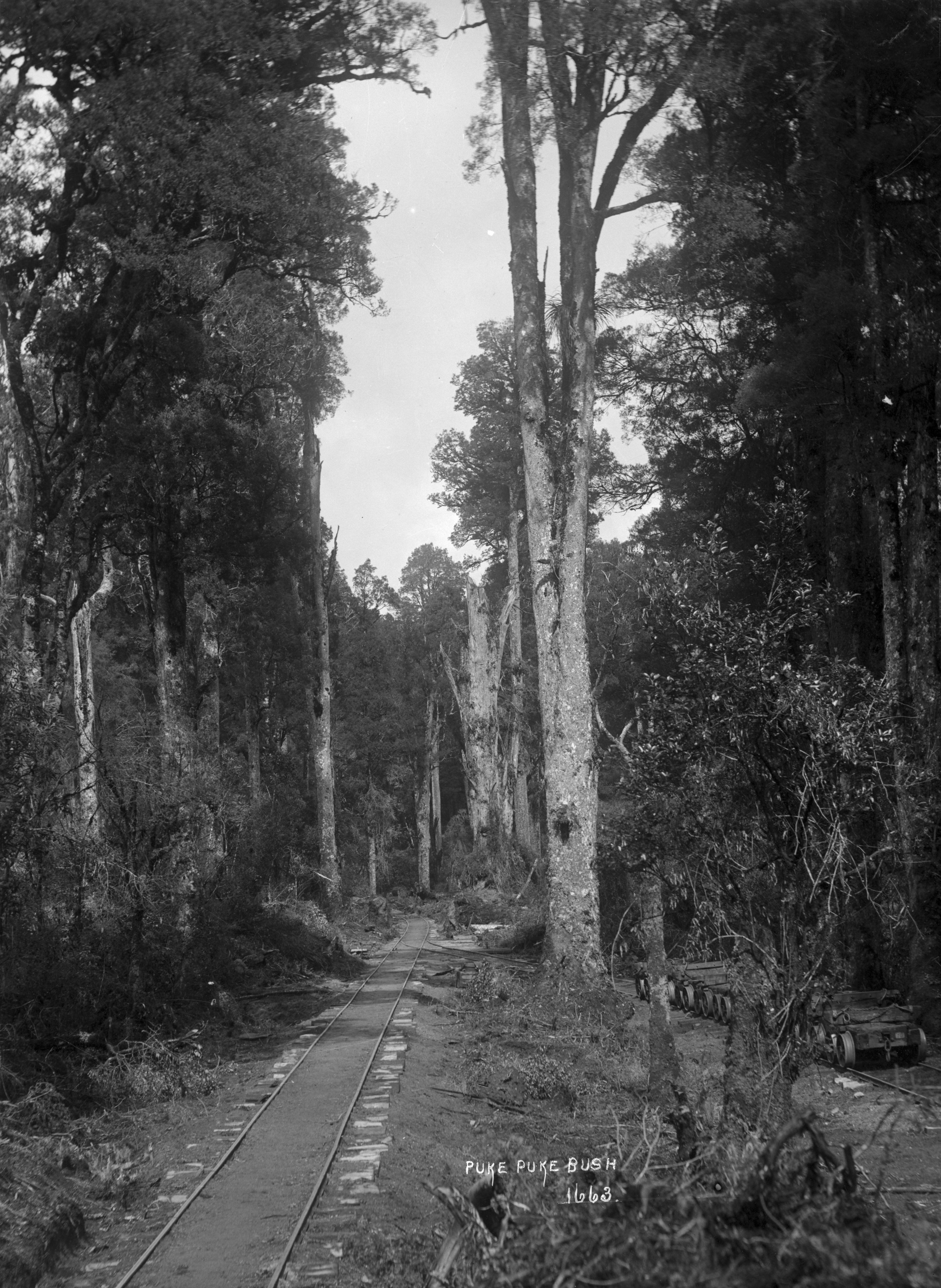 View of logging railway track through native bush at Pukepuke. Photograph taken by William Archer Price Inscriptions: Inscribed - Photographer's title on negative -bottom right: Puke Puke bush [No.] 1663. Quantity: 1 b&w original negative(s). Physical Description: Dry plate glass negative 4.5 x 6.5 inches Logging railway track through bush at Pukepuke in Oroua County. Price, William Archer, 1866-1948 :Collection of post card negatives. Ref: 1/2-000022-G. Alexander Turnbull Library, Wellington, New Zealand.